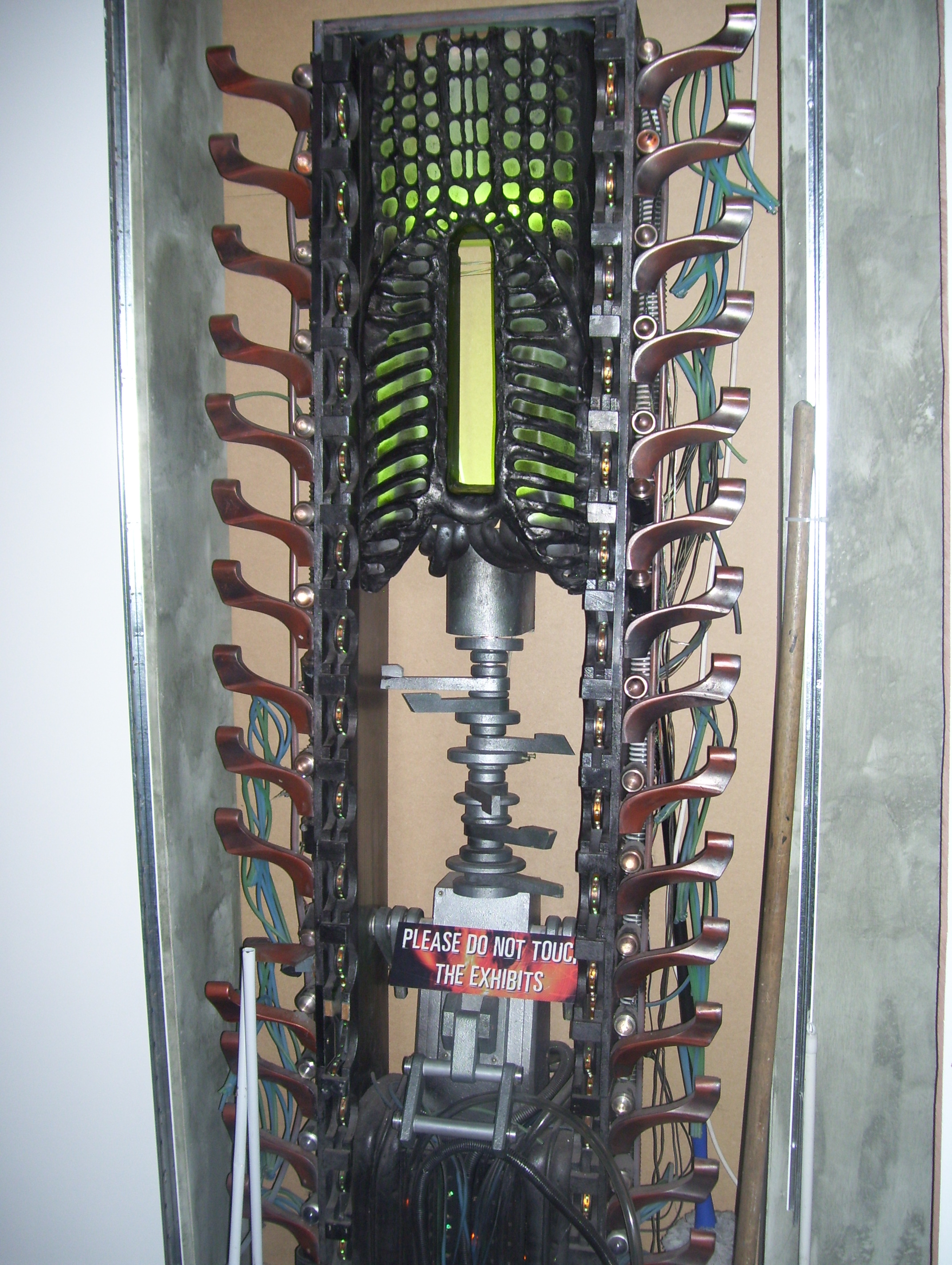 Doctor who exhibit Doctor Who Experience